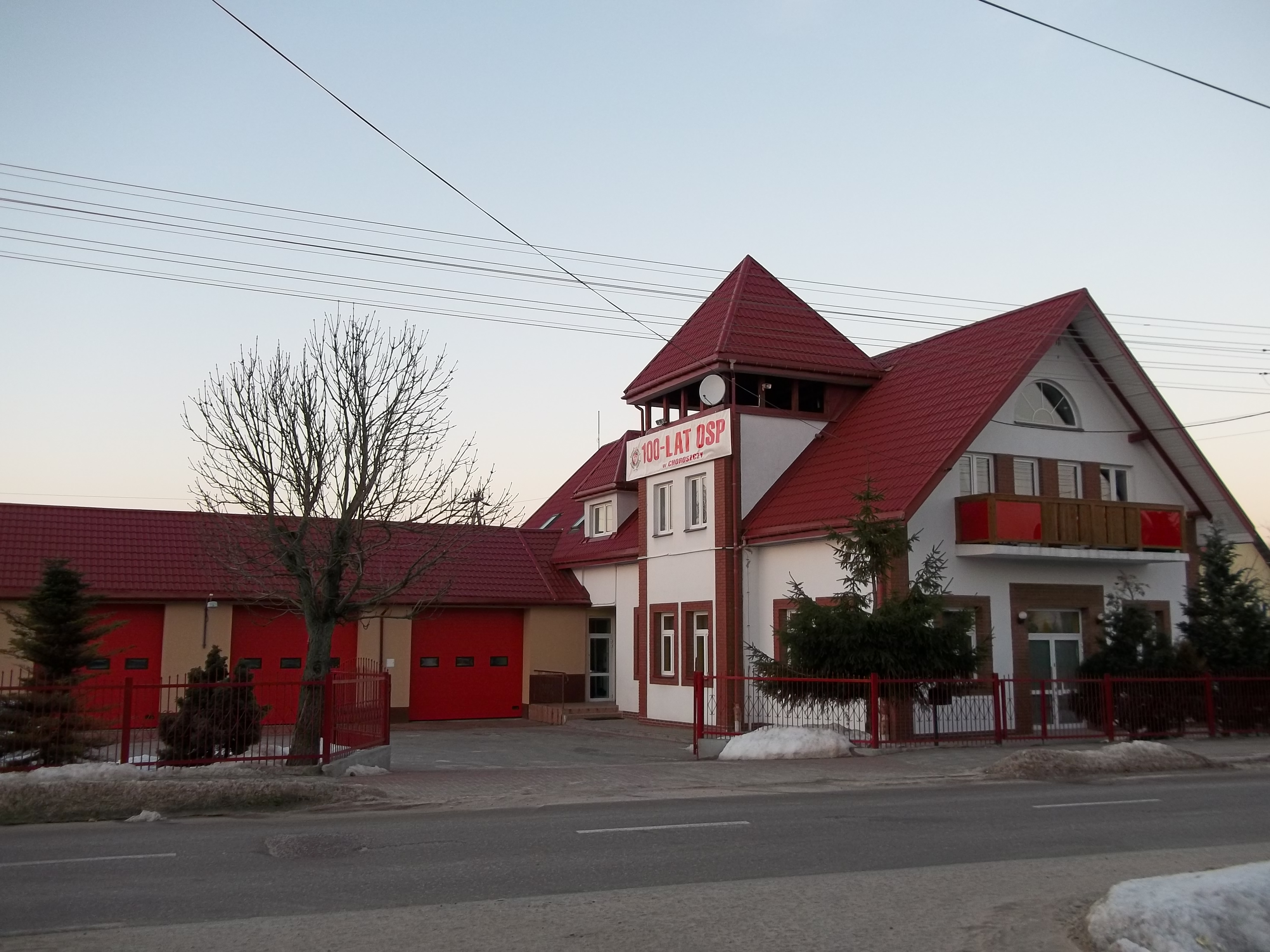 Fire station in Choroszcz.